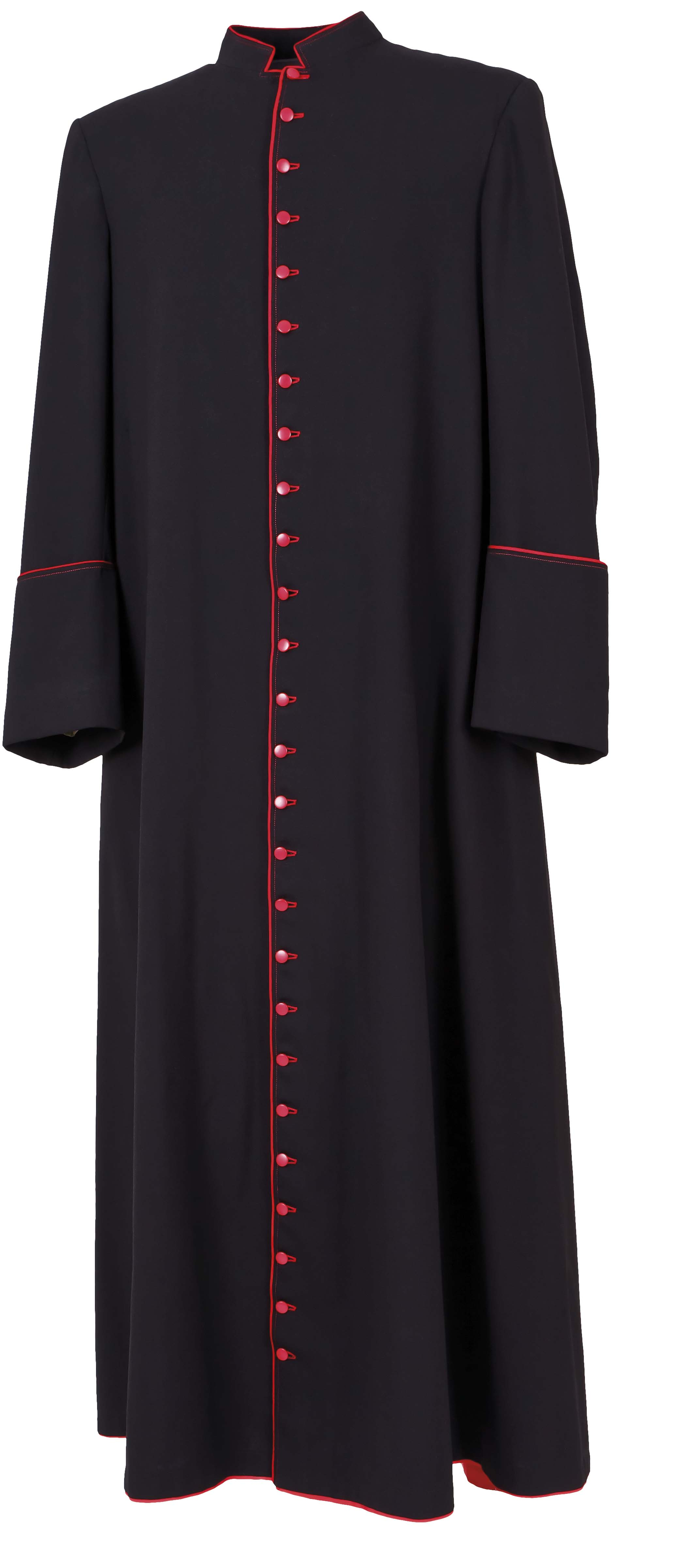 The cassock of Stefan Wyszynski